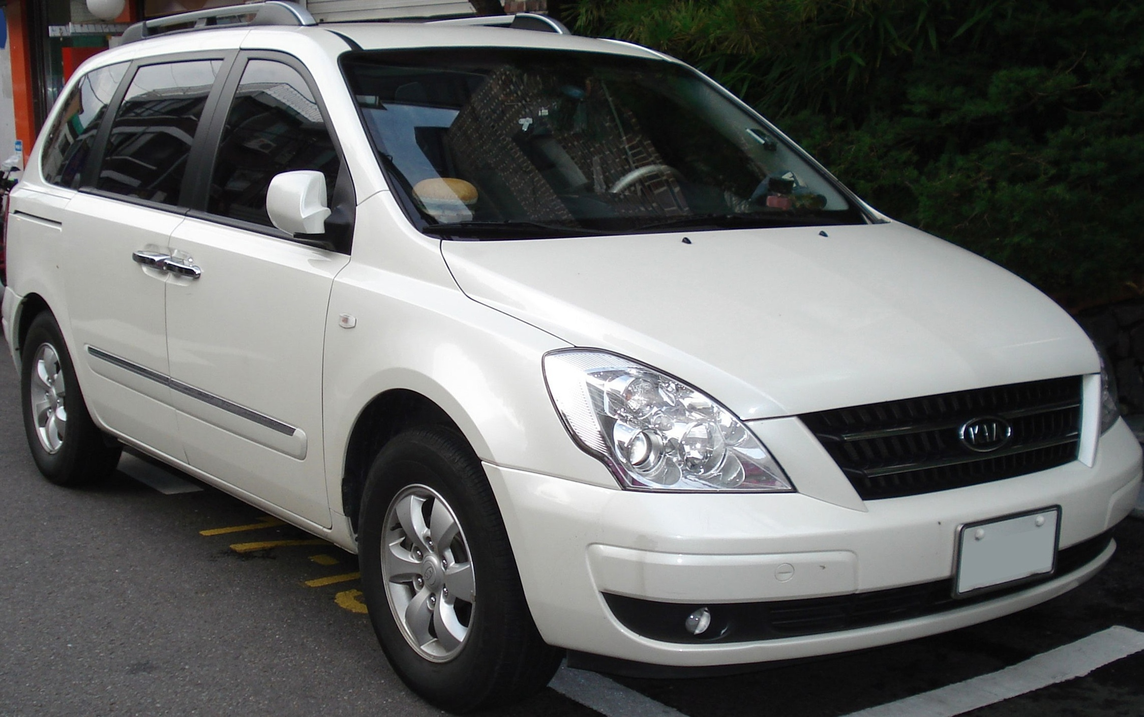 Kia New Carnival